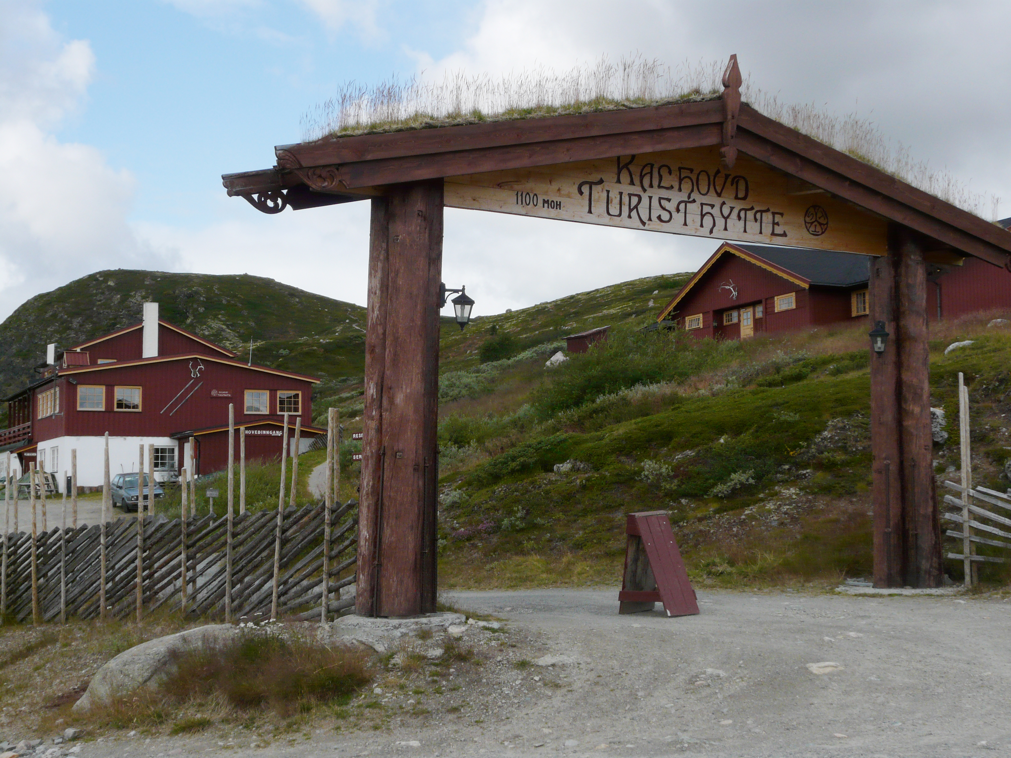 Turisthytta Kalhovd